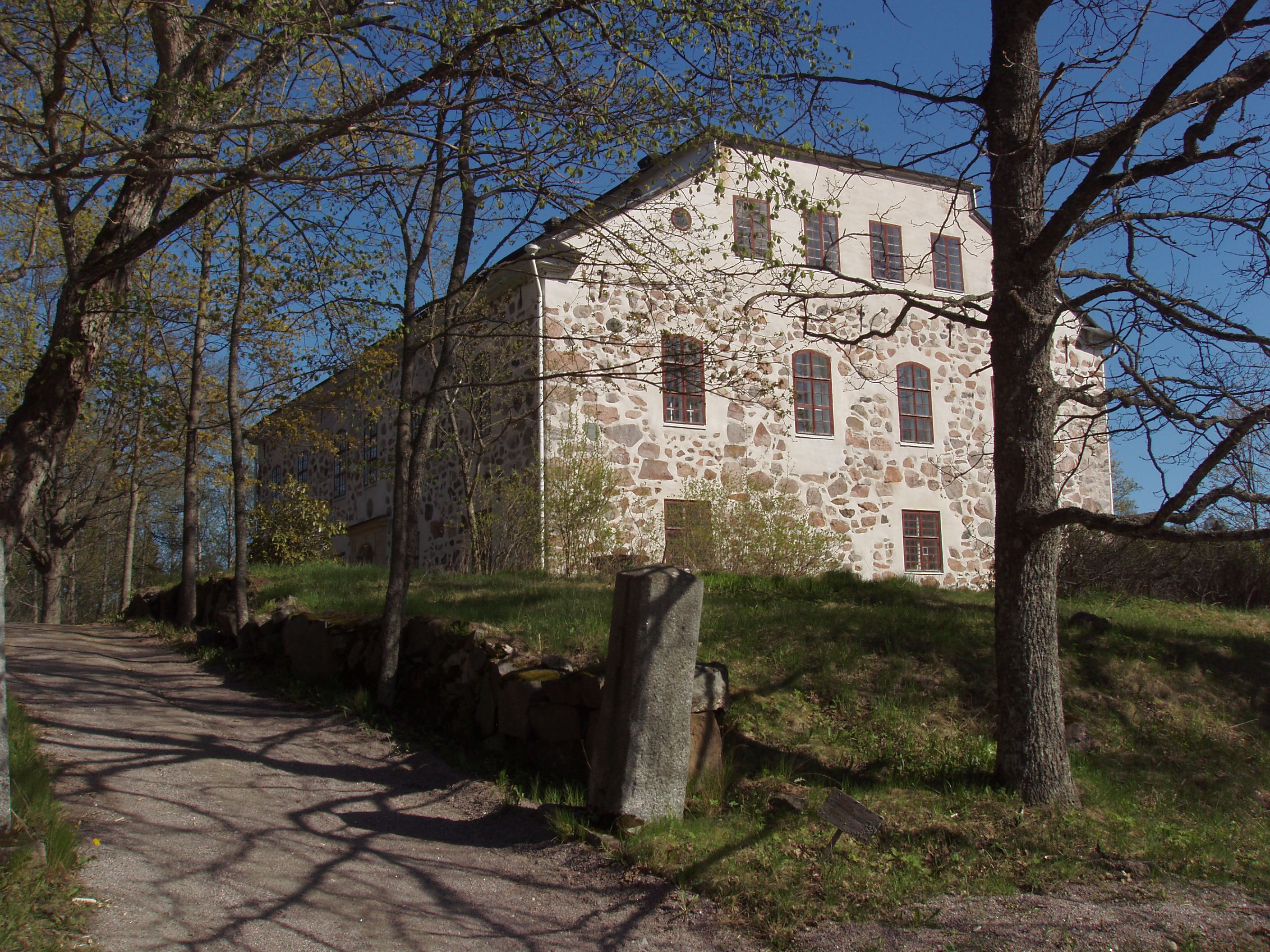 Sjundby castle in Siuntio, Finland